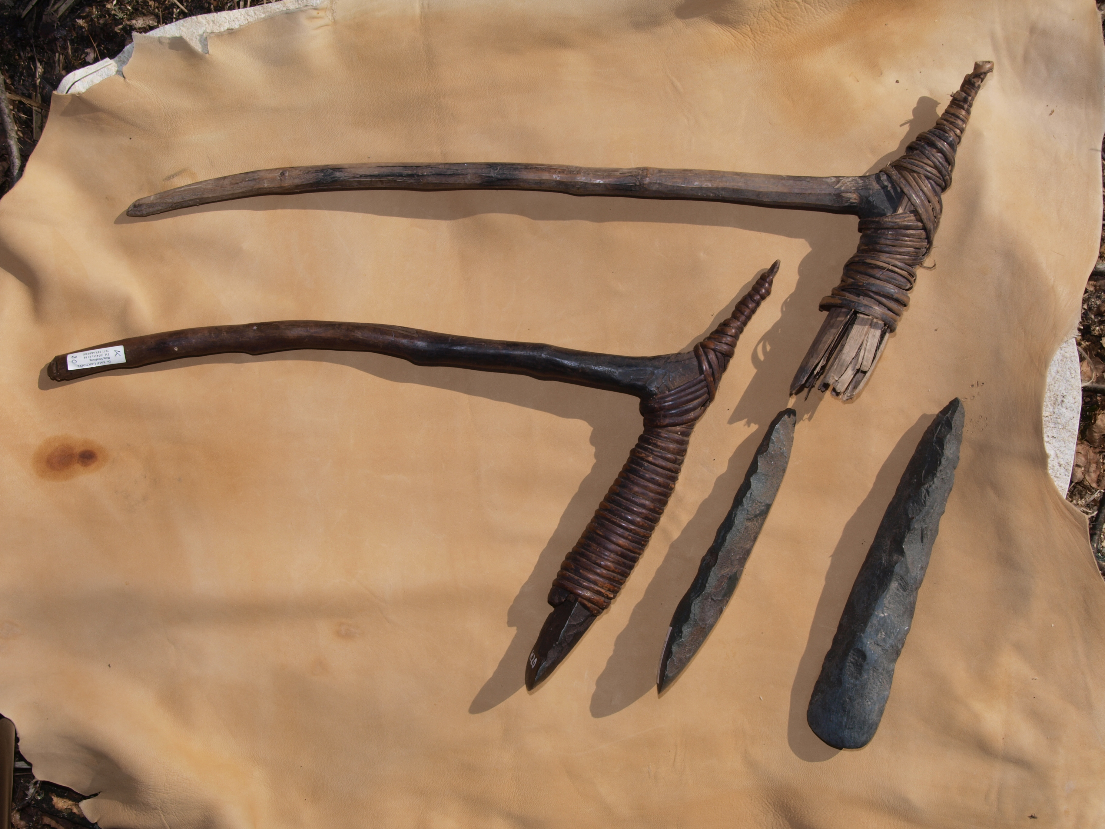 Two adzes and one additional stone blade from New Guine. On the upper adze the stone blade is expelled from the handle.